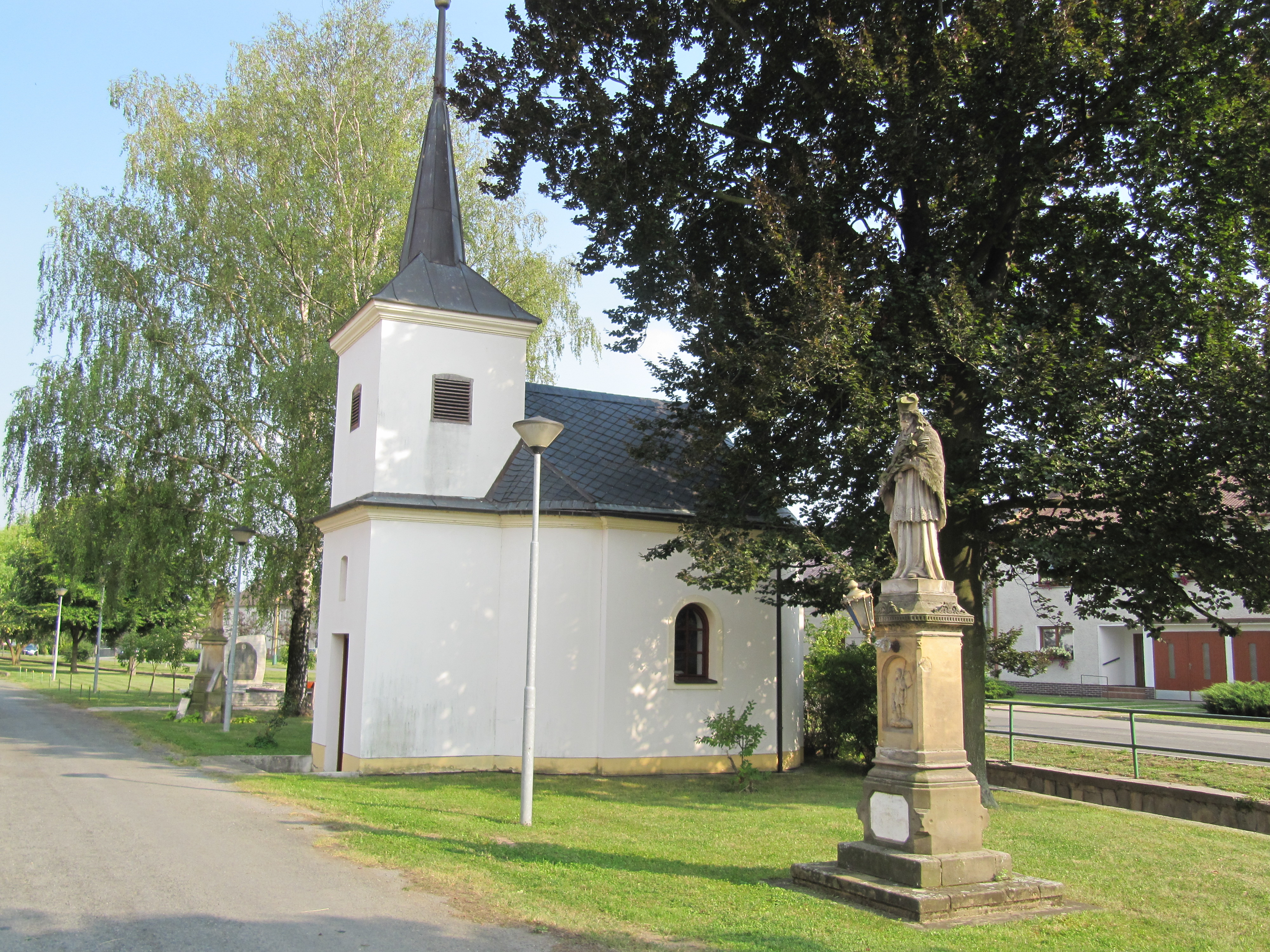 Luběnice in Olomouc District, Czech Republic. Chapel of the Virgin Mary and statue of St. John of Nepomuk.